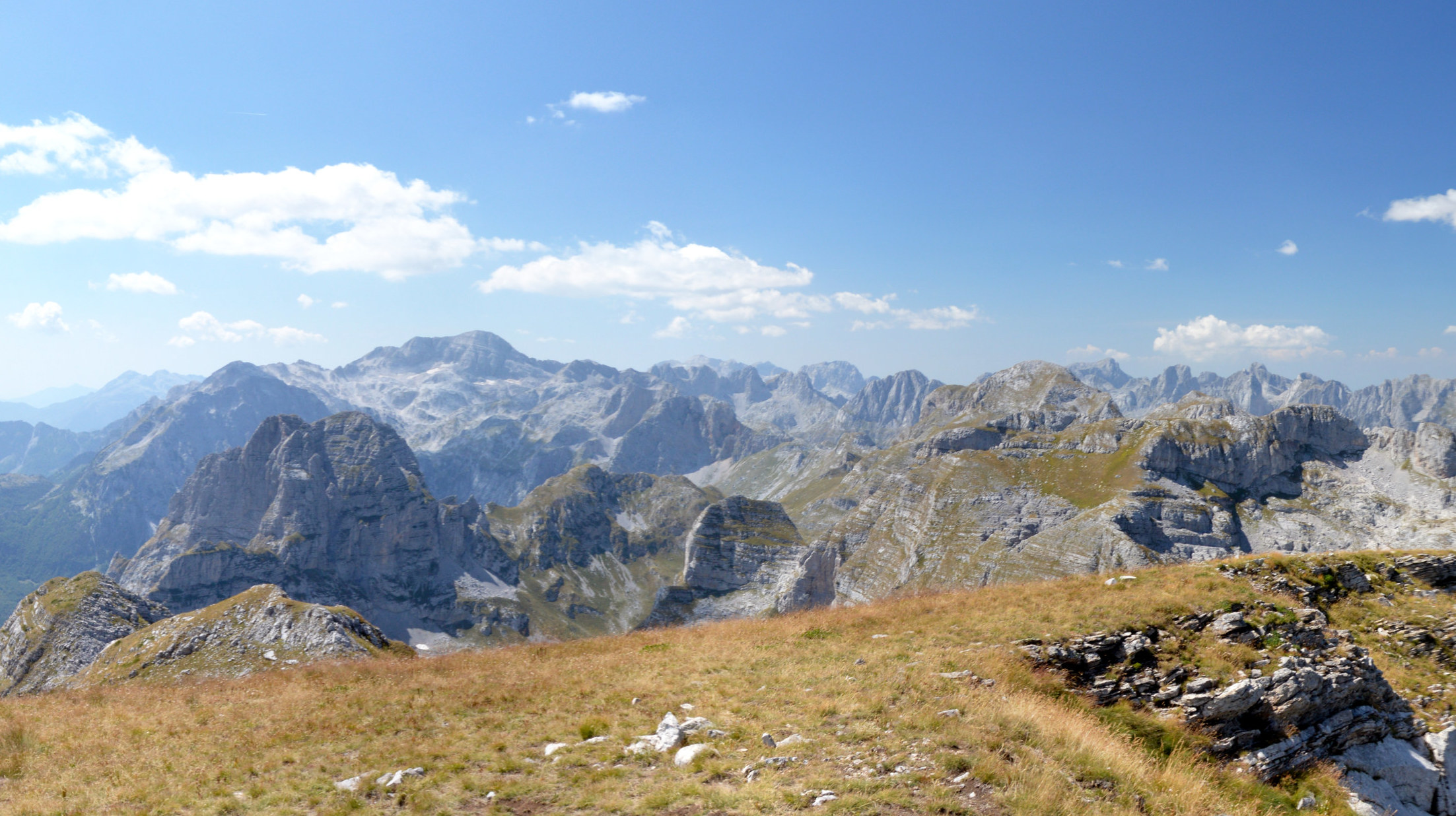 View from summit Zla Kolata - panorama 360 degree